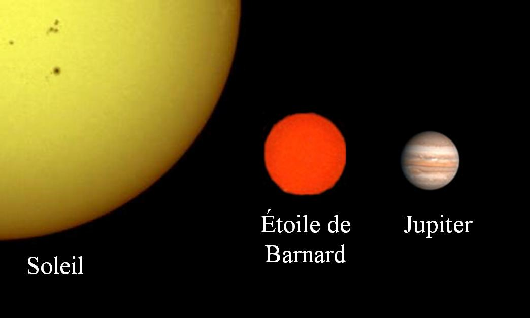 Relative size of Barnard's Star (0.175 Sol)